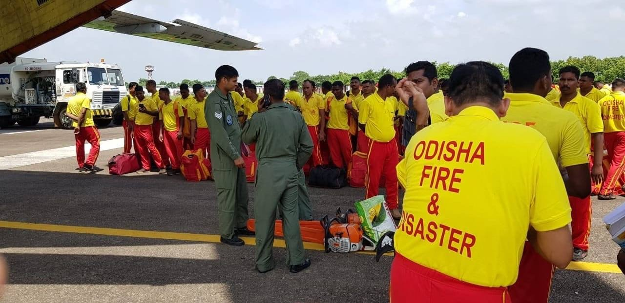 Odisha fire personnel for rescue operation in 2018 Kerala floods.